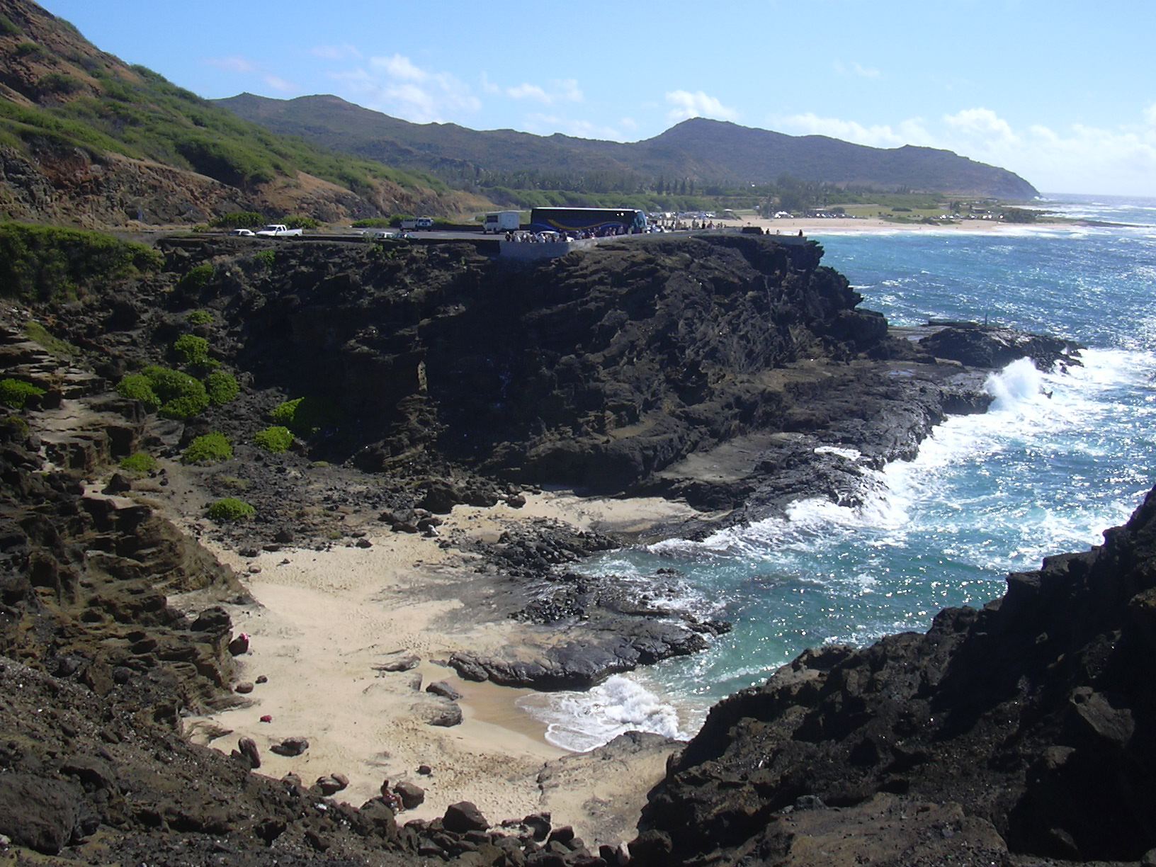 Scaevola taccada (view coast). Location: Oahu, Koko Head lookout